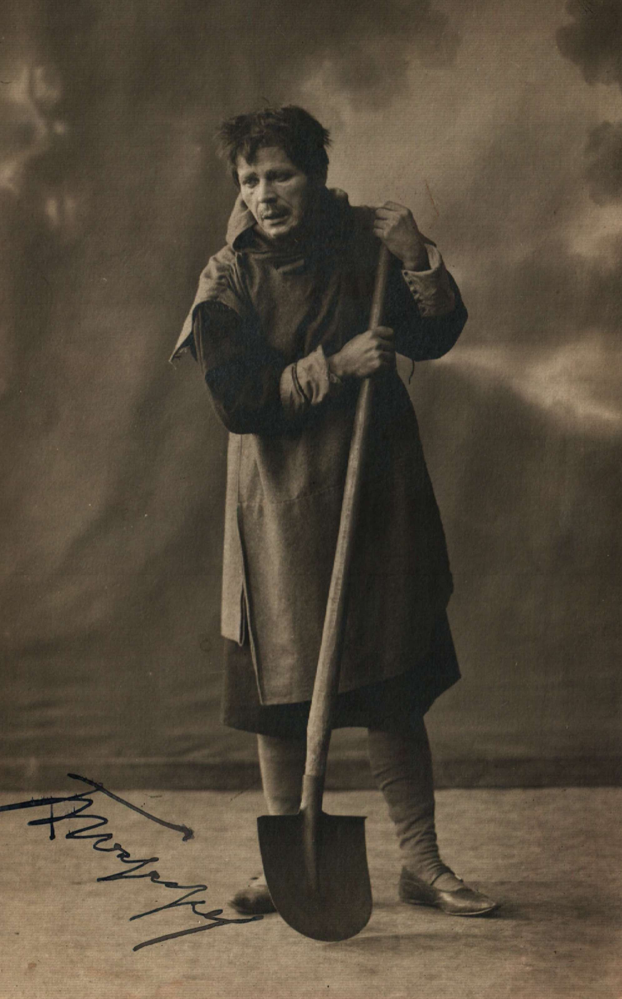 Bulgarian actor Boris Pozharov (1866-1942)